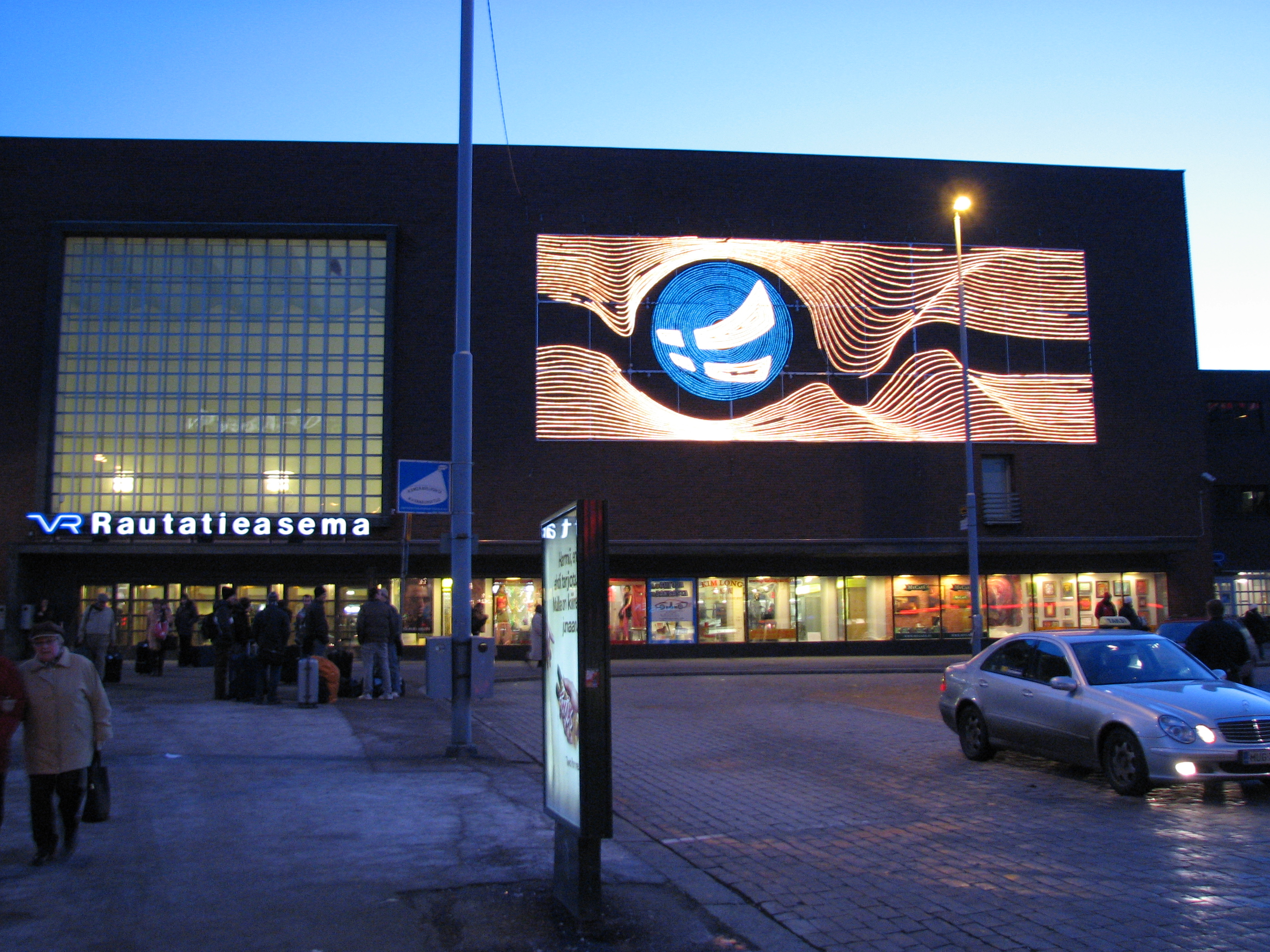 The Tampere railway station on a December morning. Viewed from Hämeenkatu just one city block away. Note the nice Finnish flag decoration.